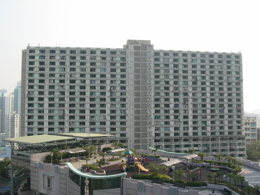 Block 12, Kwai Shing East Estate. Currently used for interim housing.